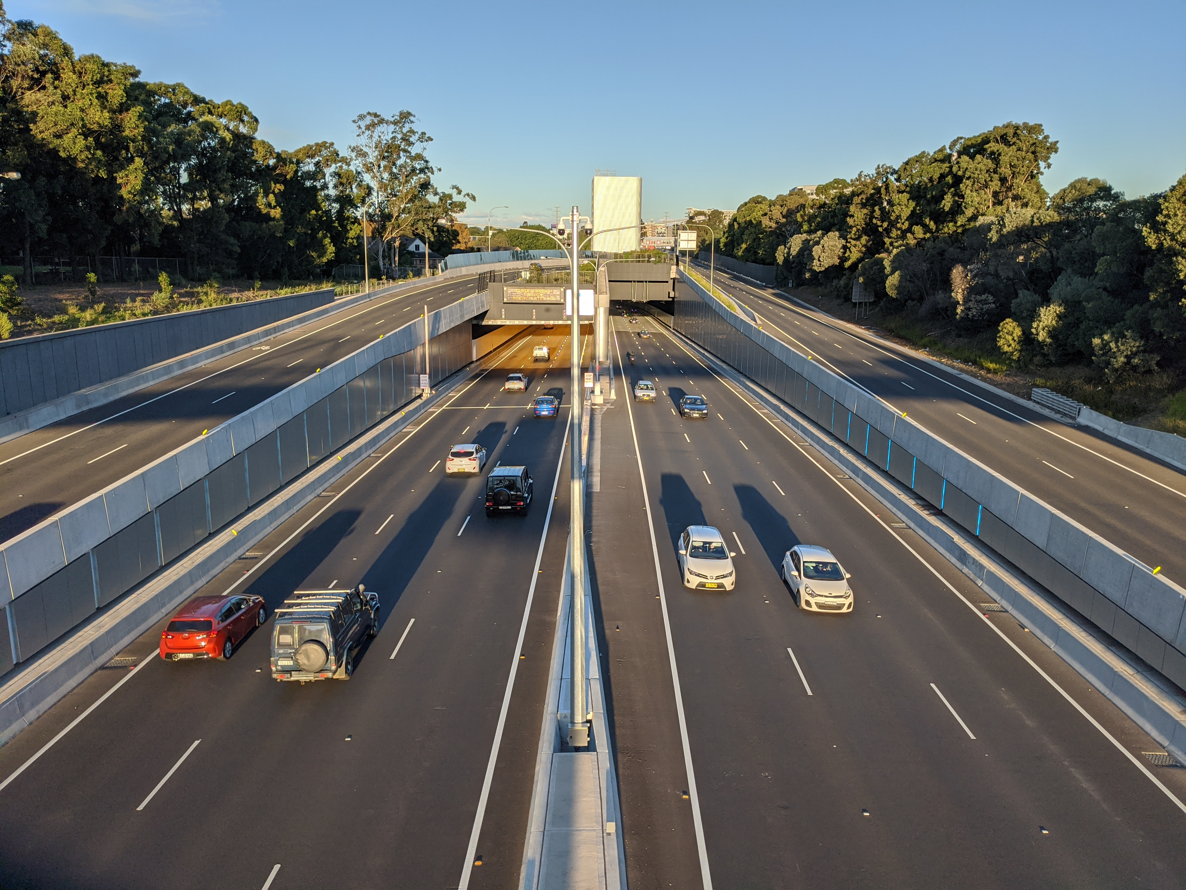 M4 Tunnel entrance, Sydney, Australia